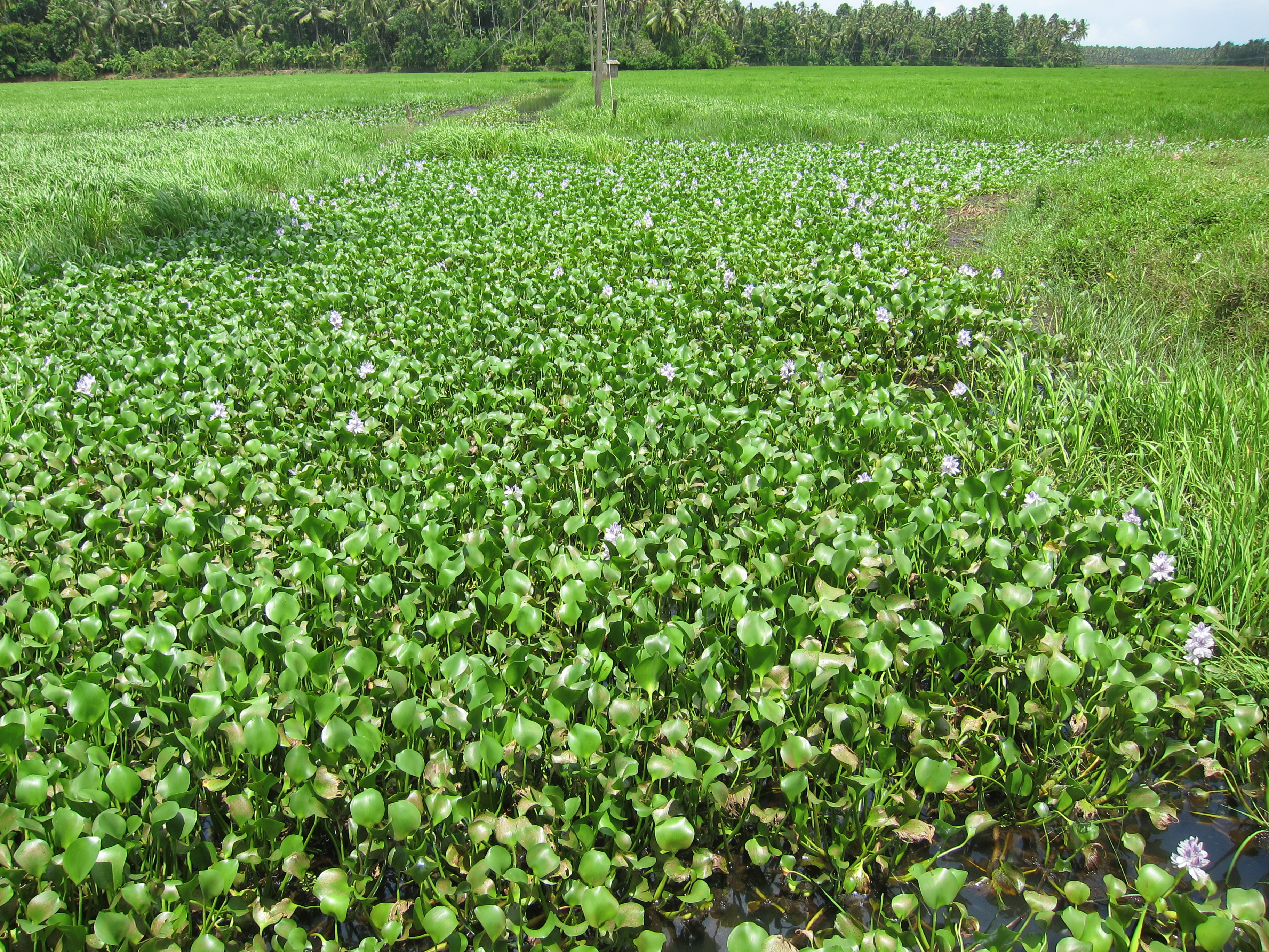 Water Hyacinth